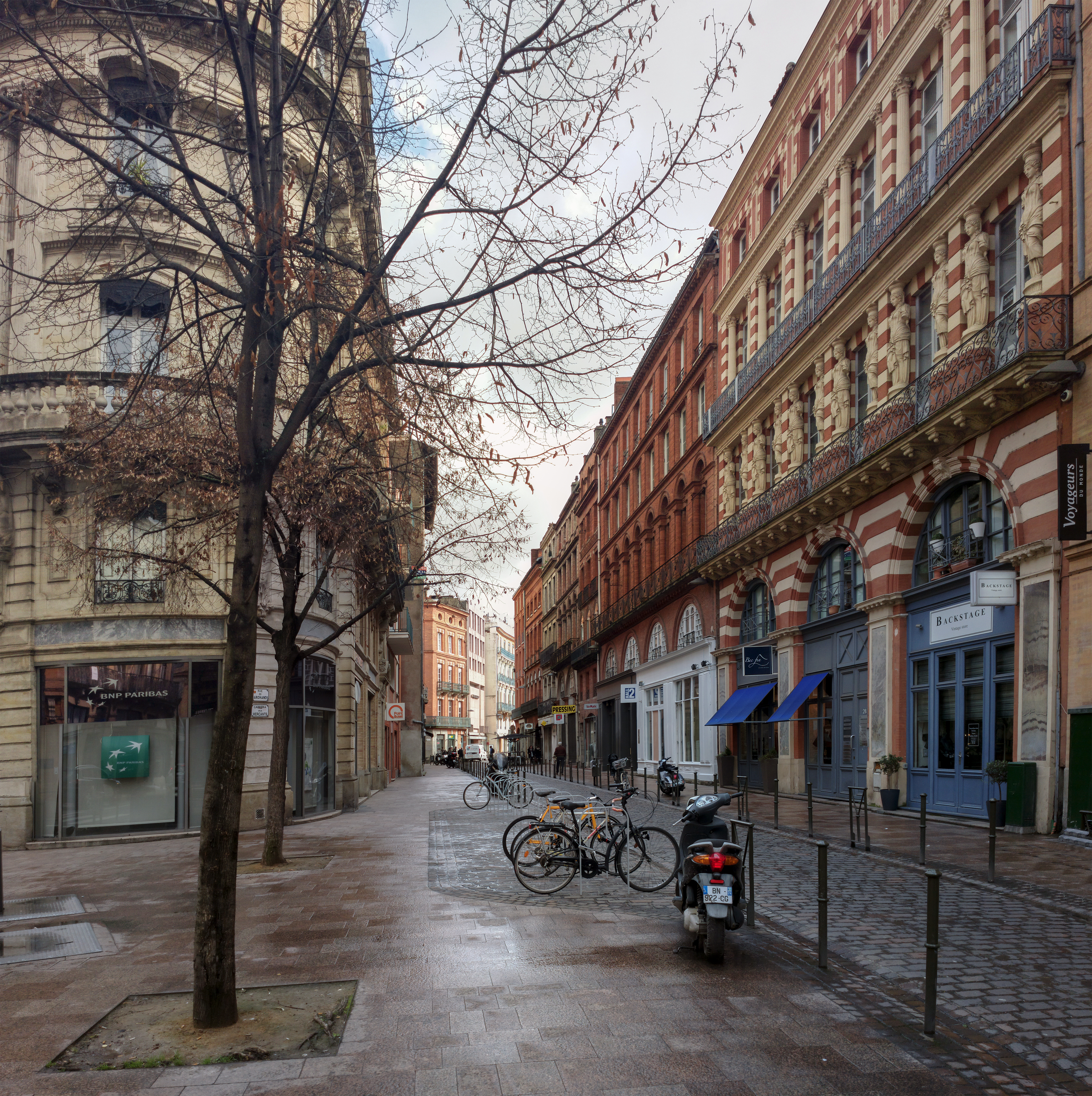 Rue des Marchands in Toulouse. View from rue de Metz, to the place de la Trinité.